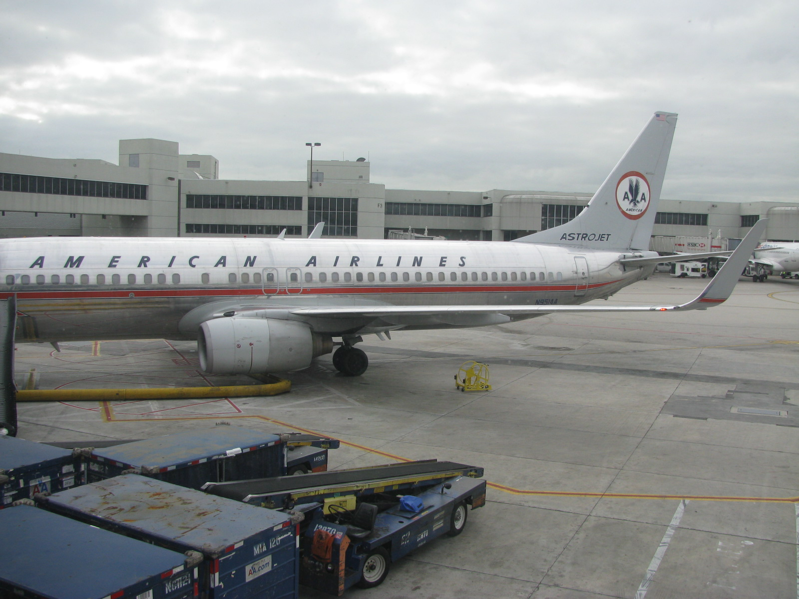 N951AA, an American Airlines B737 painted with the old Astrojet livery. Taken at Miami International Airport at gate E2, before it departed on flight AA1938 to Tampa.